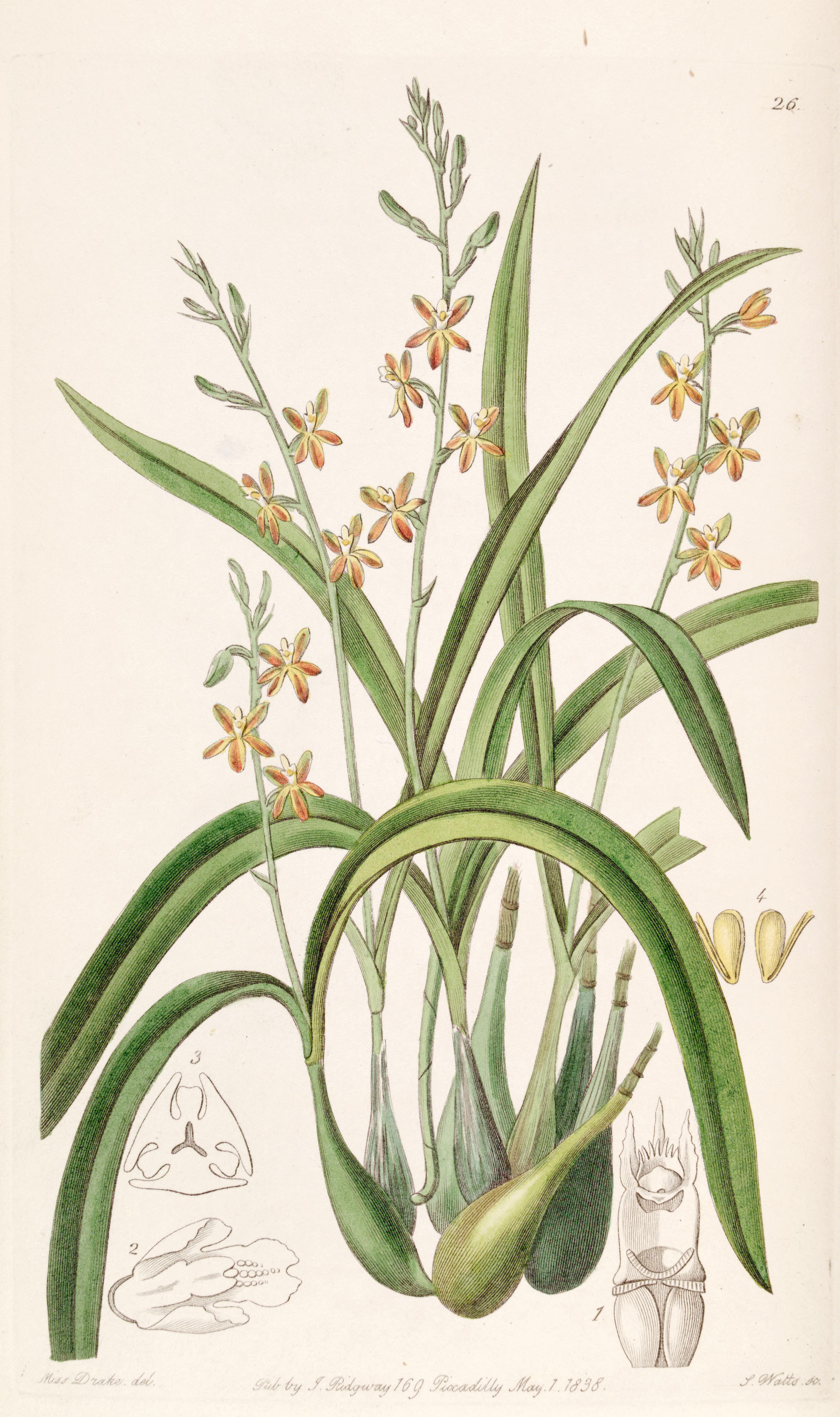 Prosthechea ochracea (as syn. Epidendrum ochraceum)